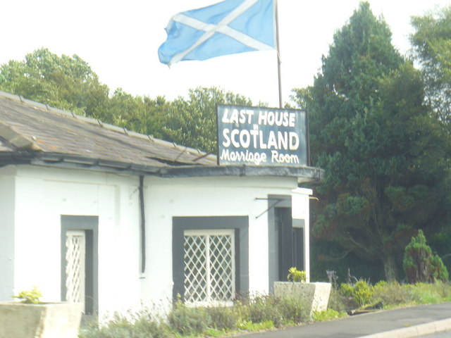 Marriage Room: Historic building in Gretna which has a colourful history for weddings. This is either the first or the last house in Scotland, depending on your viewpoint - the boundary line with England is just to the right of the house.